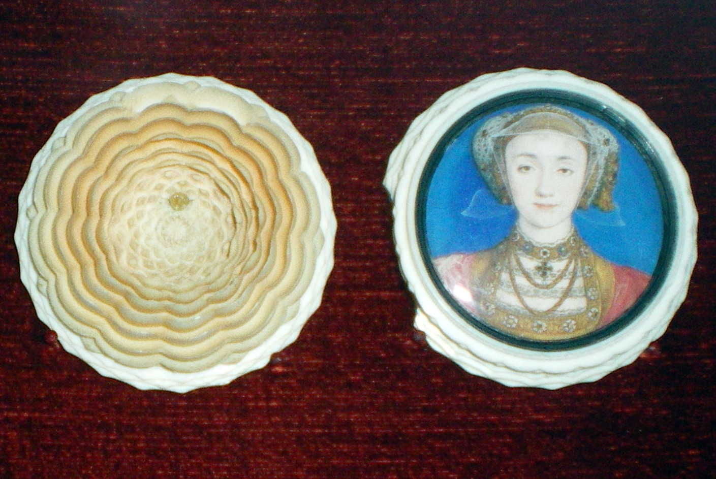 Miniature in Miniature Box Portrait of Anne of Cleves, 4th Queen of Henry VIII Watercolour on vellum Box - turned ivory Painted by Hans Holbein (1497 - 1543) Possibly English or German 1539 A circular, face-to-view bust portrait of Anne of Cleves in a black frame, mounted in carved ivory box. She is wearing an elaborate jewelled & gilt Tudor head-dress with a sheer lace veil hanging across the top of her forehead and framing her face. Her face is young, pale and open with slight, dark brows, almost sleepy brown eyes, a faint blush on her cheeks and a thin-lipped but smiling mouth. She is wearing two heavy gold chains and a jet & gold cross on a bodice of gold-coloured fabric & lace with red sleeves. She is painted against a royal blue background. The lid of the box is surmounted by a many petalled flower of turned & carved ivory (looking not unlike a crystal Rose of the Desert). Each circular layer is extremely fine making the whole flower very delicate. This rests on the facetted ivory lid which appears to frame it in this image. Holbein painted a full-size portrait of Anne as a prospective bride for Henry VIII. This miniature probably dates from the same time. Miniatures were items for personal use, pinned to clothes or, in this case, as a keepsake kept in a special box. Anne's marriage to the King lasted six months. She was divorced and lived in comfortable retirement. Wikipedia Loves Art at the Victoria and Albert Museum This photo of item # [1] at the Victoria and Albert Museum was contributed under the team name "the_arty_facts" as part of the Wikipedia Loves Art project in February 2009. Victoria and Albert Museum The original photograph on Flickr was taken by art_traveller—please add a comment to the original Flickr page whenever a use has been made on Wikipedia or another project. Project galleries on Flickr: this institution, this team